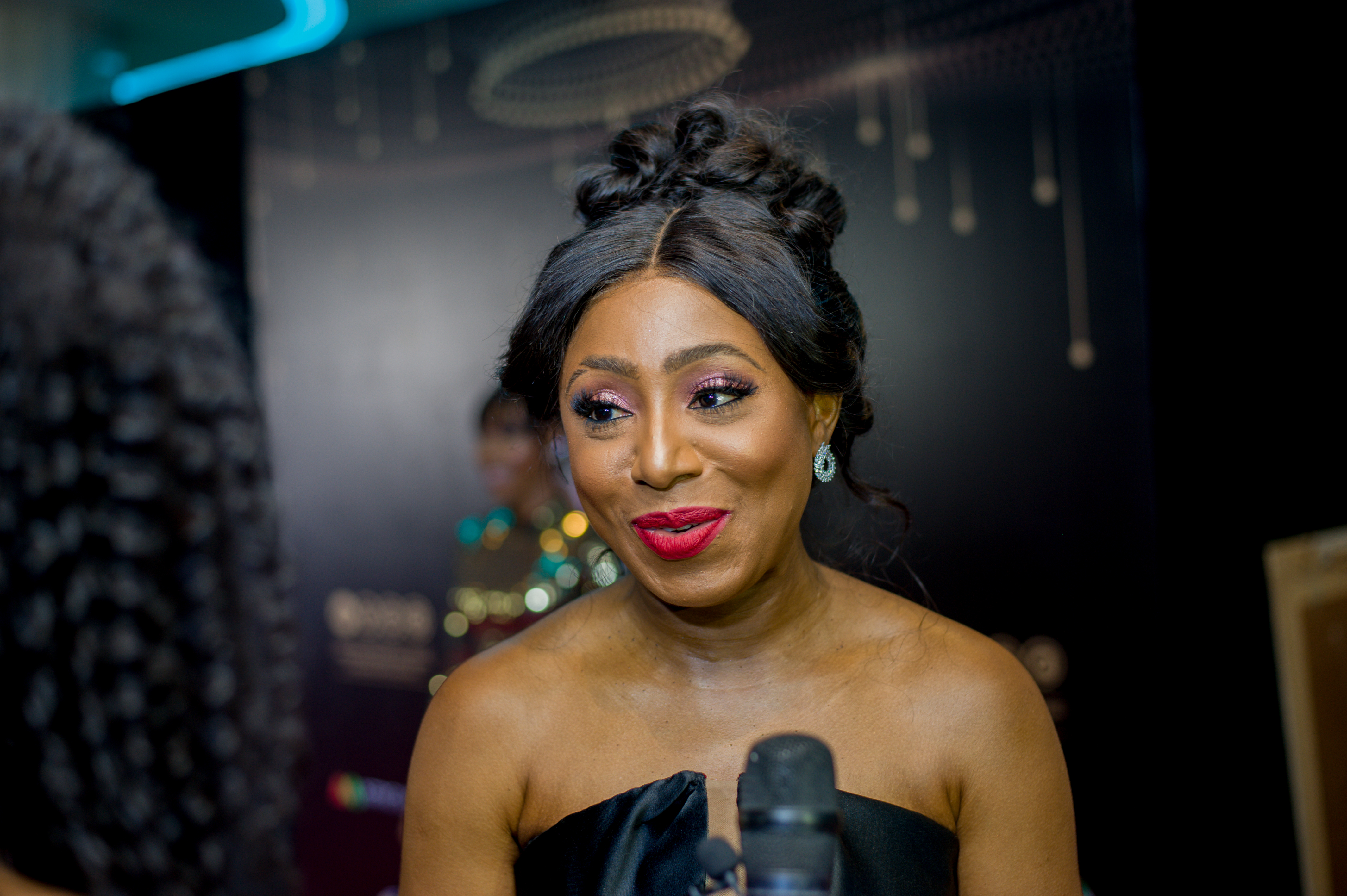 Pictures from AMVCA 2020